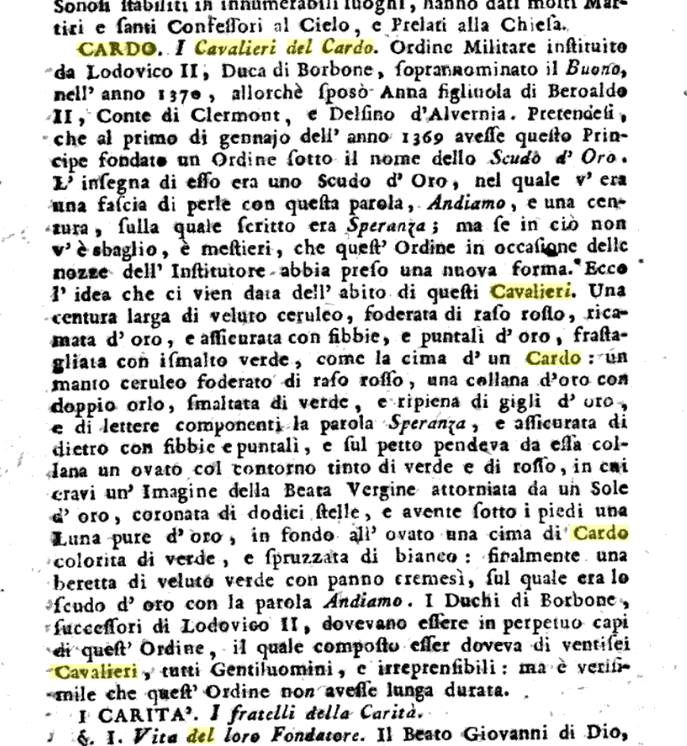 Article sourced from page 142 of the Dizionario Storico Portatile (1792)